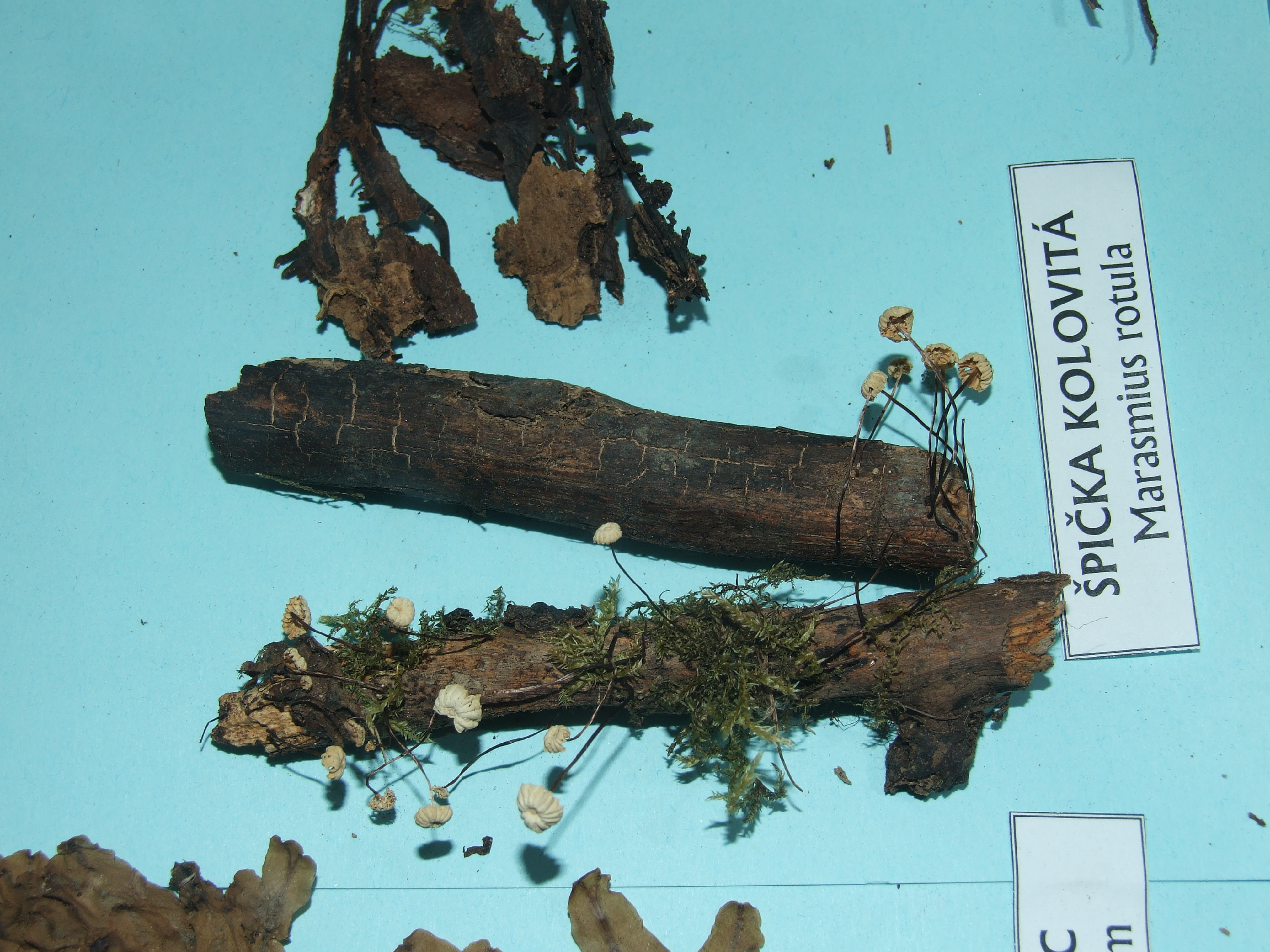 Municipal museum Nové Město nad Metují